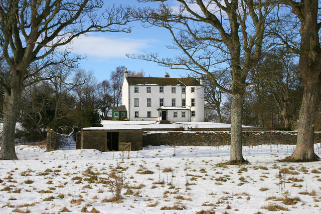 Kinnaber House.